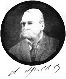 Anatole Mallet